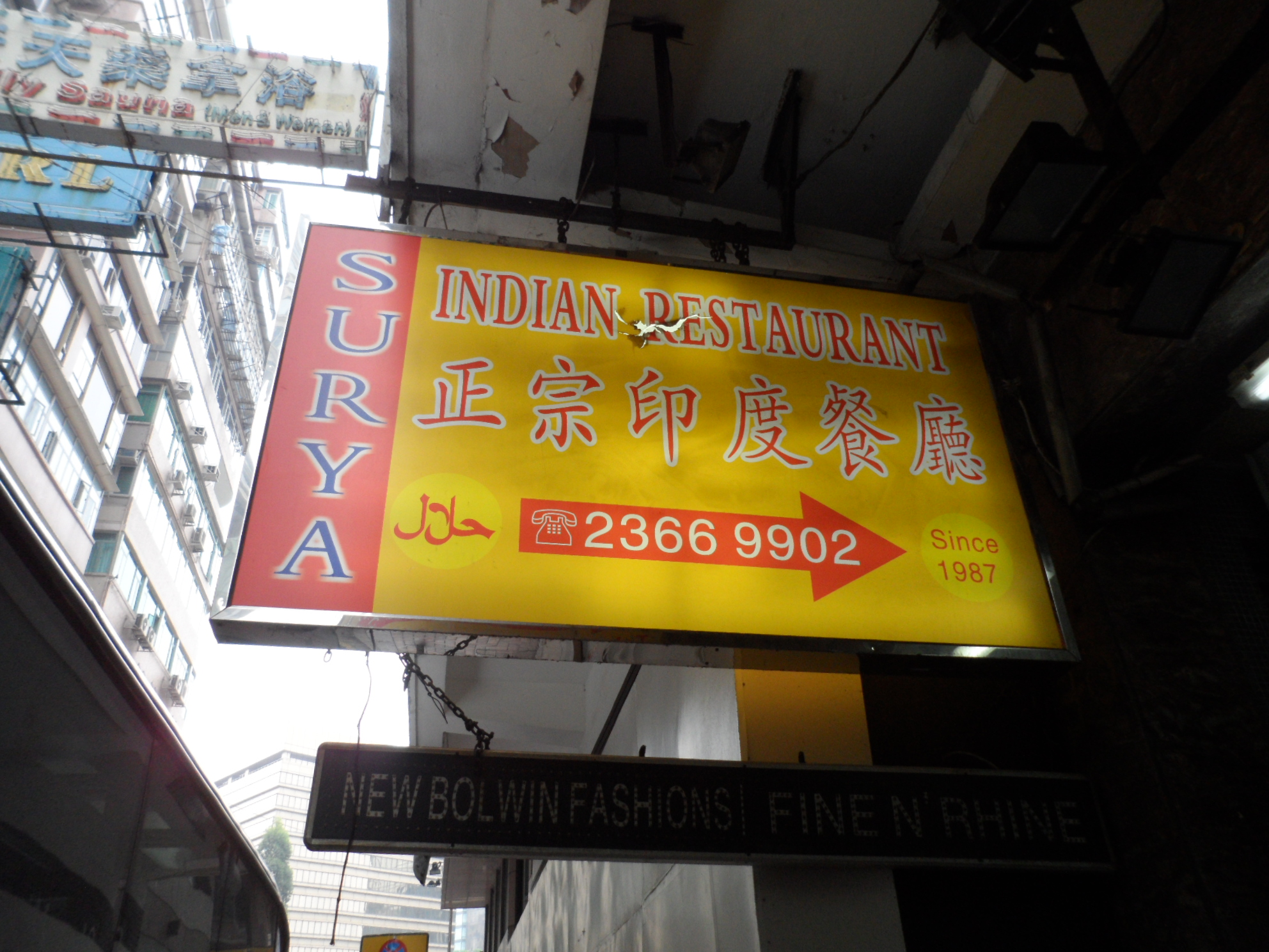 Surya Indian Restaurant, Tsim Sha Tsui, Hong Kong, China